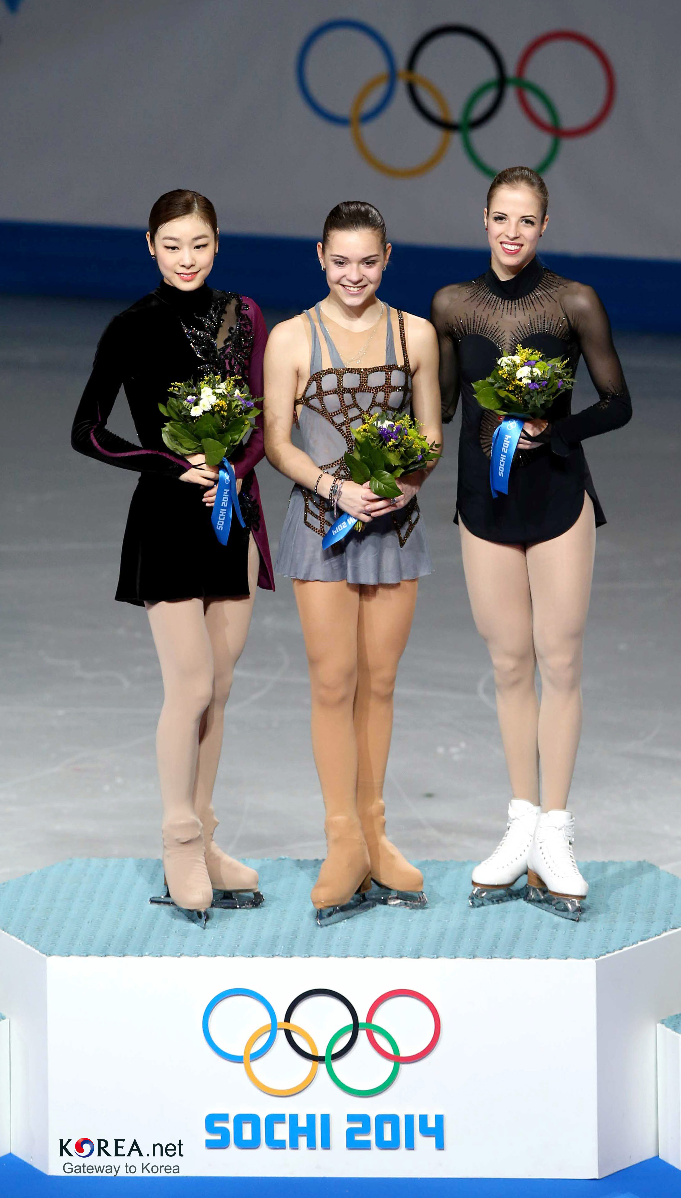 Kim Yuna, 2014 Sochi Winter Olympic Games Figure Skating Ladies Free Skating. February 20, 2014 Iceberg Skating Palace, Sochi, Russia Photo: The Korean Olympic Committee Related Articles -English- Farewell to the queen: Kim gives it her all in her final performance ‘Figure Skating Queen’ Kim Yuna aims at second Olympics gold 'Enjoy your time in Sochi': President Olympics team heads to Sochi -Deutsch- Die „Königin des Eiskunstlaufs” Kim Yuna kämpft um ihr zweites olympisches Gold -中文- 花滑女王金妍儿自由滑比赛值得期待 -日本語- キム・ヨナ、最後の舞台ですべて出し切る 「フィギュアクイーン」キム・ヨナ、あとはフリーだけ 김연아, 2014 소치 동계올림픽 피겨 스케이팅 여자 프리 스케이팅 2014-02-20 러시아, 소치. 아이스버그 스케이팅 팰리스 사진: 대한체육회 코리아넷 기사 김연아, 마지막 무대에서 모든 것을 보여주다 ‘피겨 여왕’ 김연아 프리(Free)만 남았다